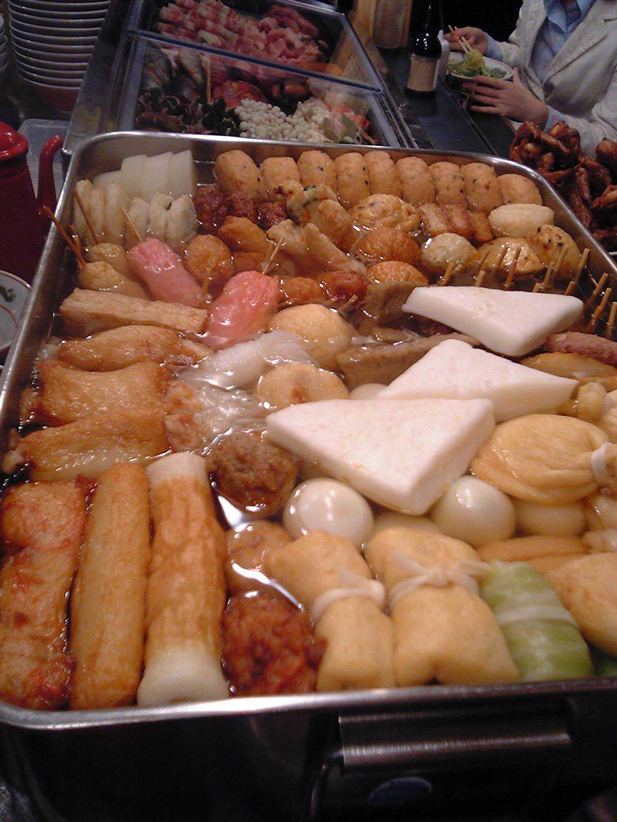 Oden